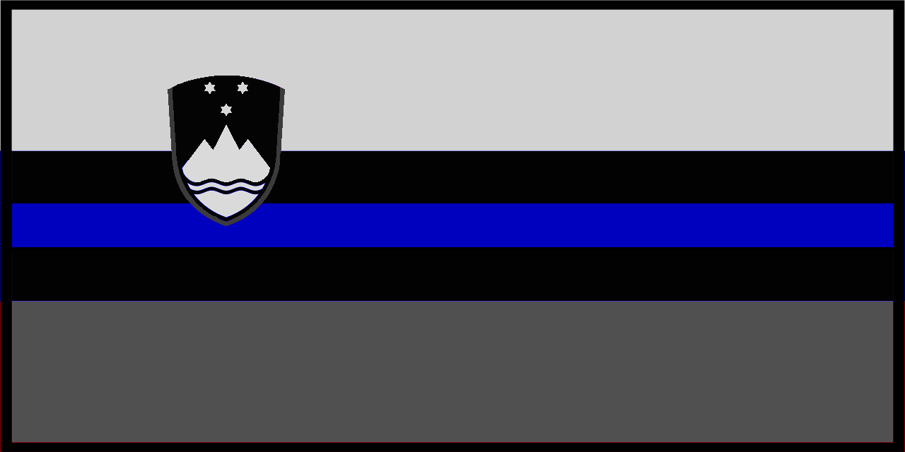 slovenian thin blue line police